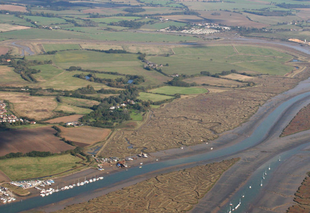 Aerial View of Tm0916 Most of the grid can be seen in this photo. Cindery Island and Brightlingsea Creek are the prominent features. The tip of Hurst Green can just be seen middle left of the photo.